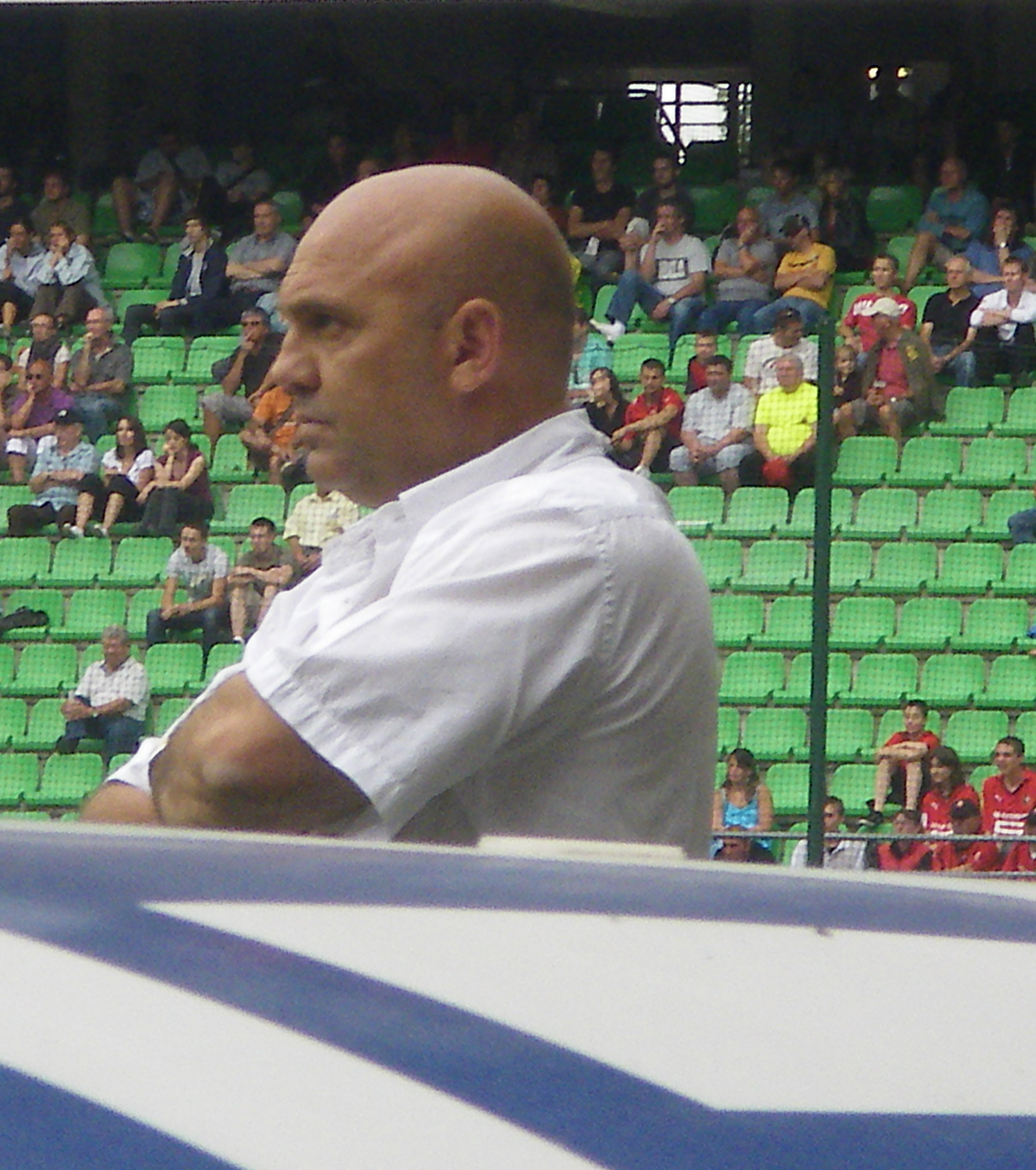 Fréderic Antonetti coach Stade Rennais FC